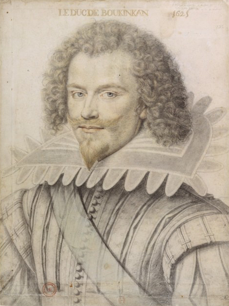 George Villiers, 1st Duke of Buckingham